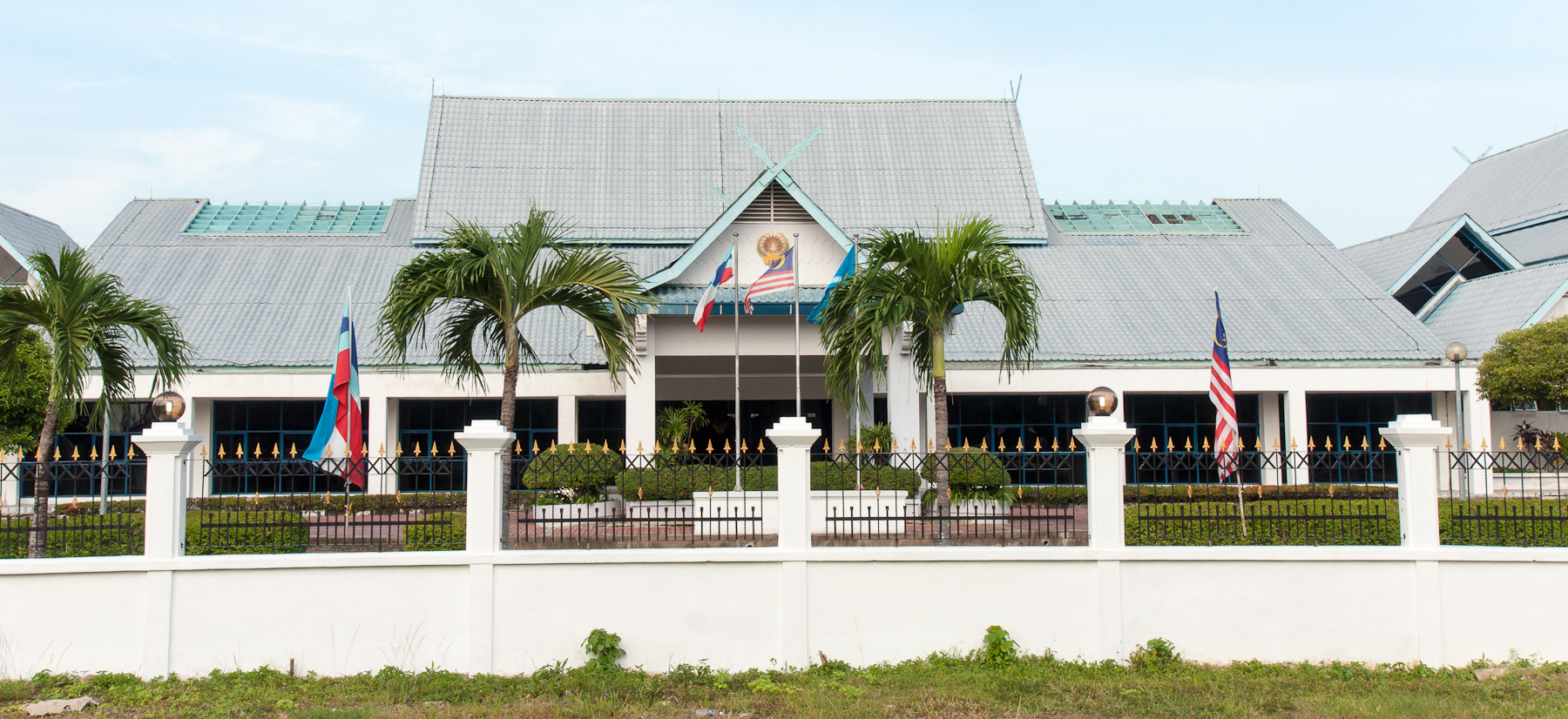 Kota Kinabalu, Sabah: Dewan Bahasa Dan Pustaka, Sabah Branch